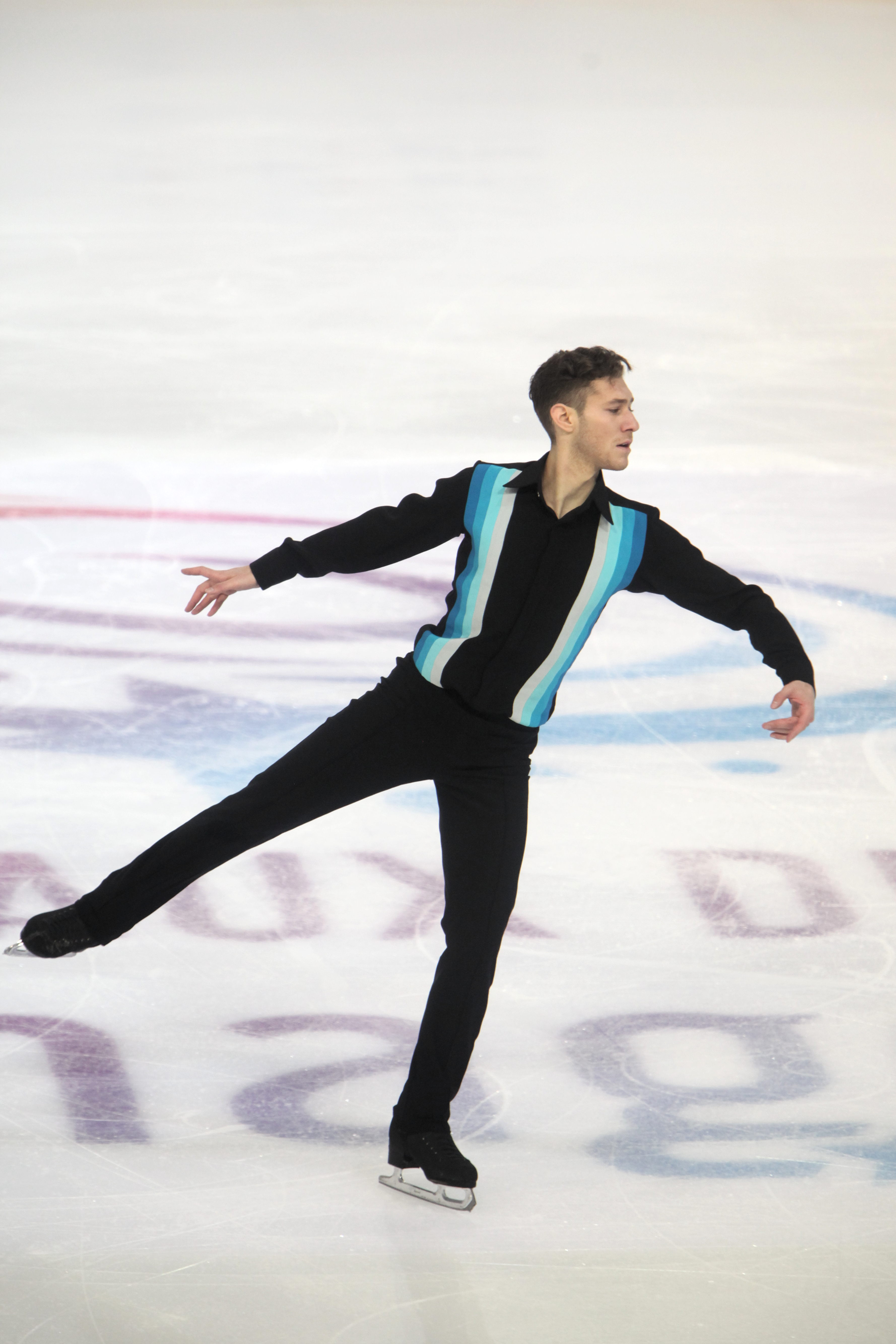 Jason Brown during the men's singles free skating at the Internationaux de France de Patinage 2018.